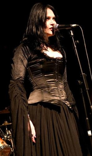 Vibeke Stene - female lead vocals of Gothic metal band Tristania